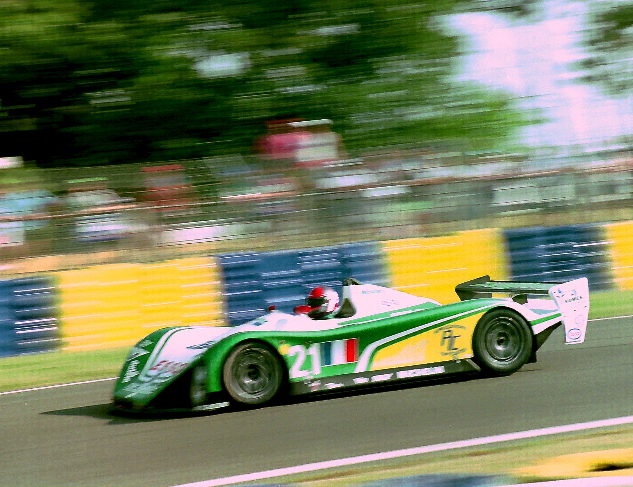 WR LM93 - Patrick Gonin, Pierre PetitJean-Paul Libert, Alain Lamouille & Herve Regout heads down towards the Esses at the 1994 Le Mans